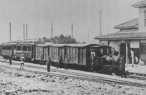 Kubiki Railway in the Pre-war Showa era